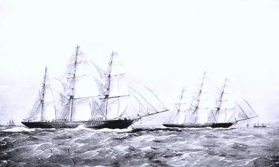 ship's name and page number from caption